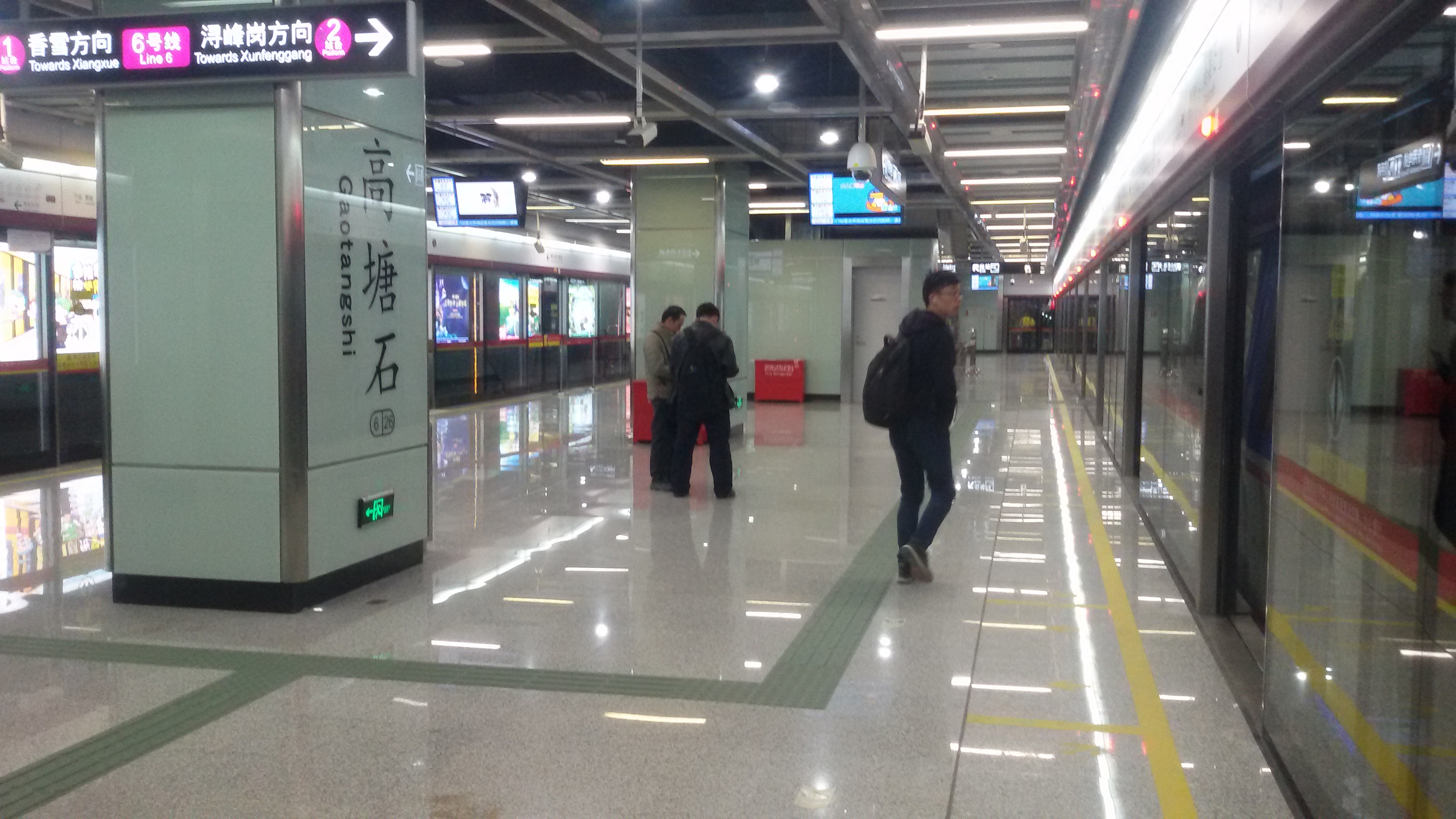 Station Platform for Gaotangshi Station in Guangzhou Metro.